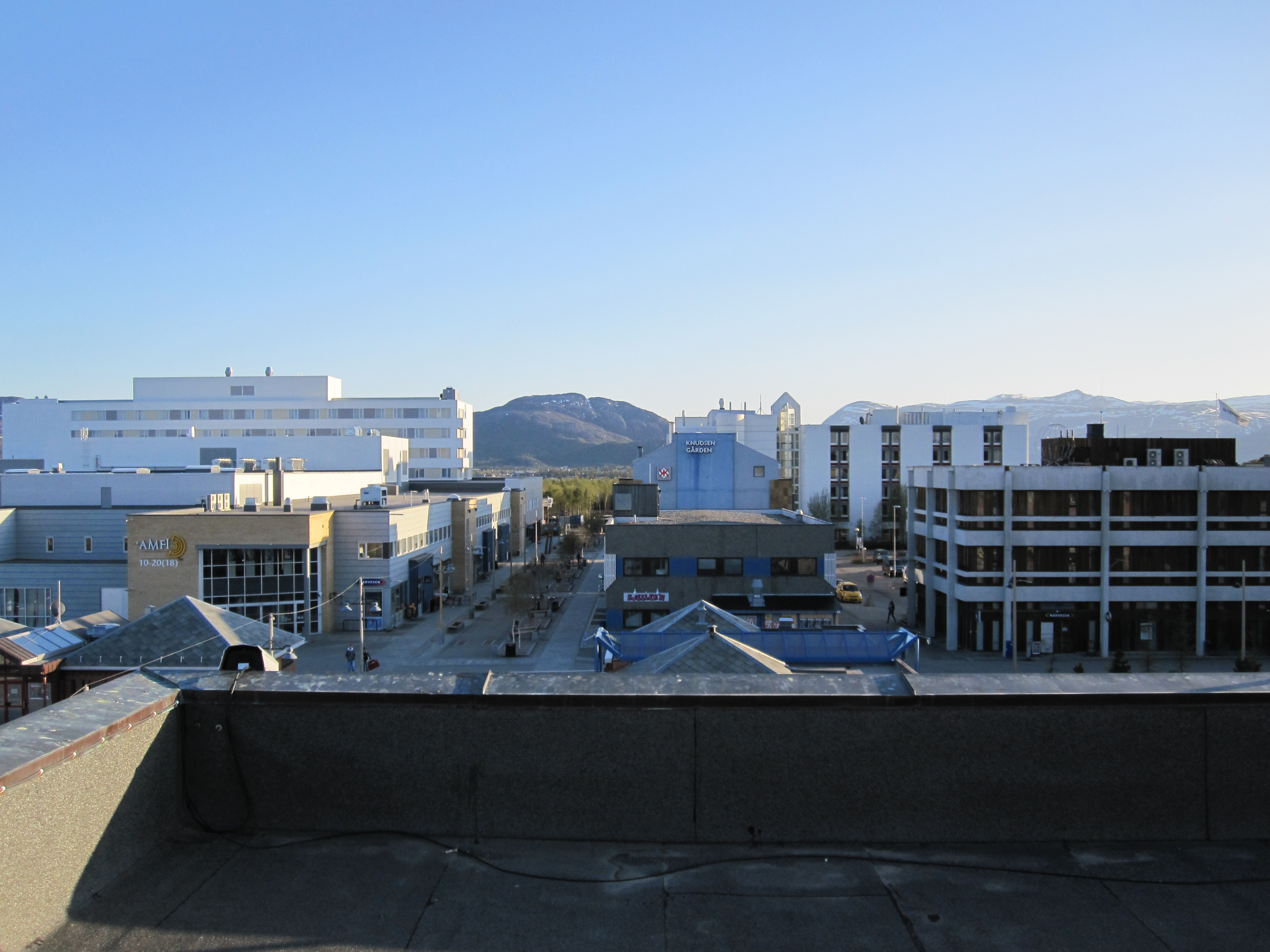 Main Street in Alta (Norway)